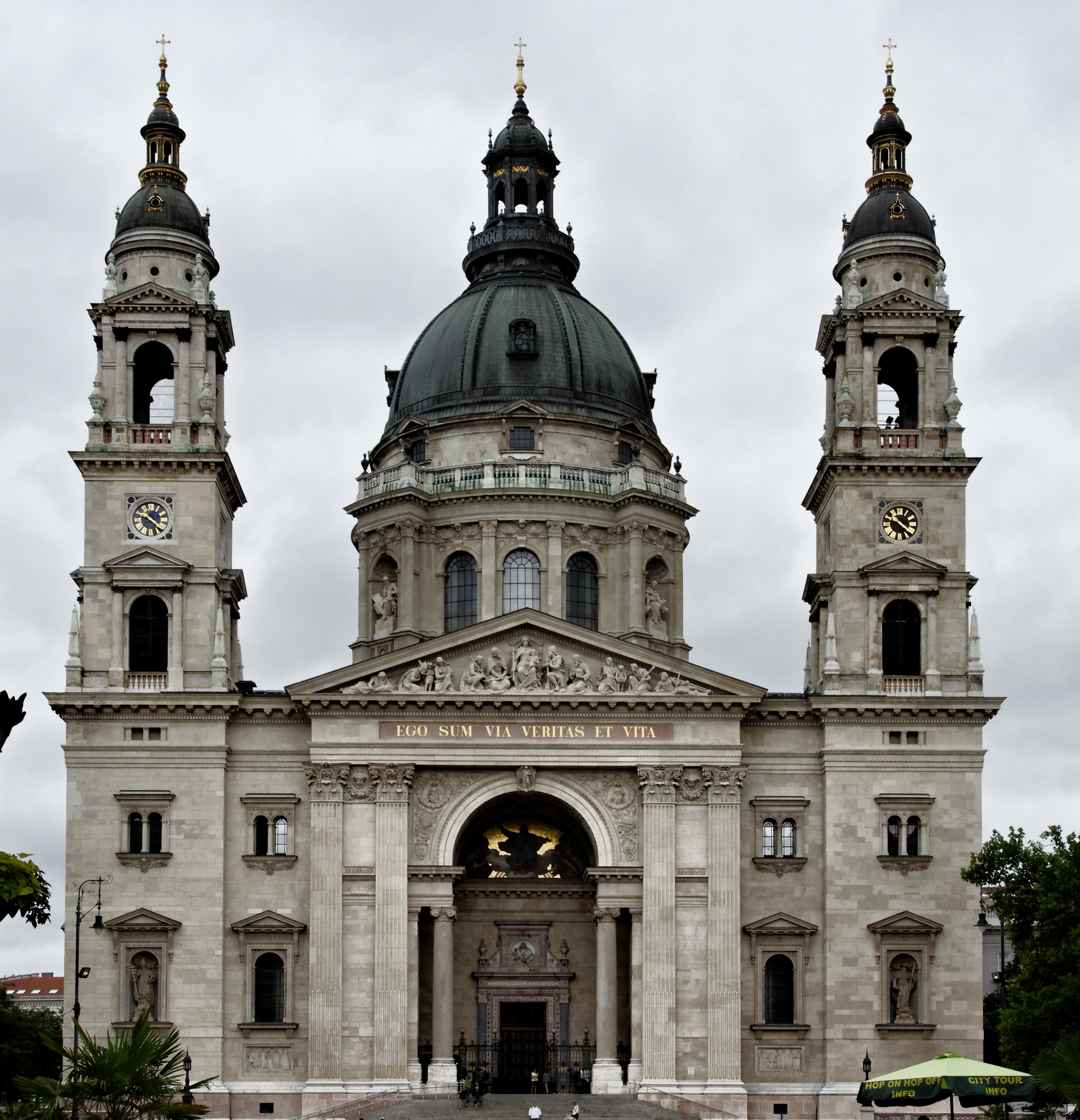 Saint Stephen's Basilica, Budapest